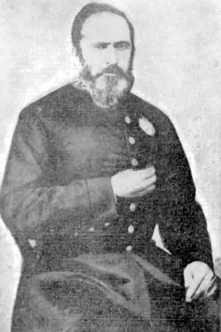 Field marshal (present-day divisional general) José Luís Mena Barreto (1817–79). Photograph taken around 1866 when he was brigadier.